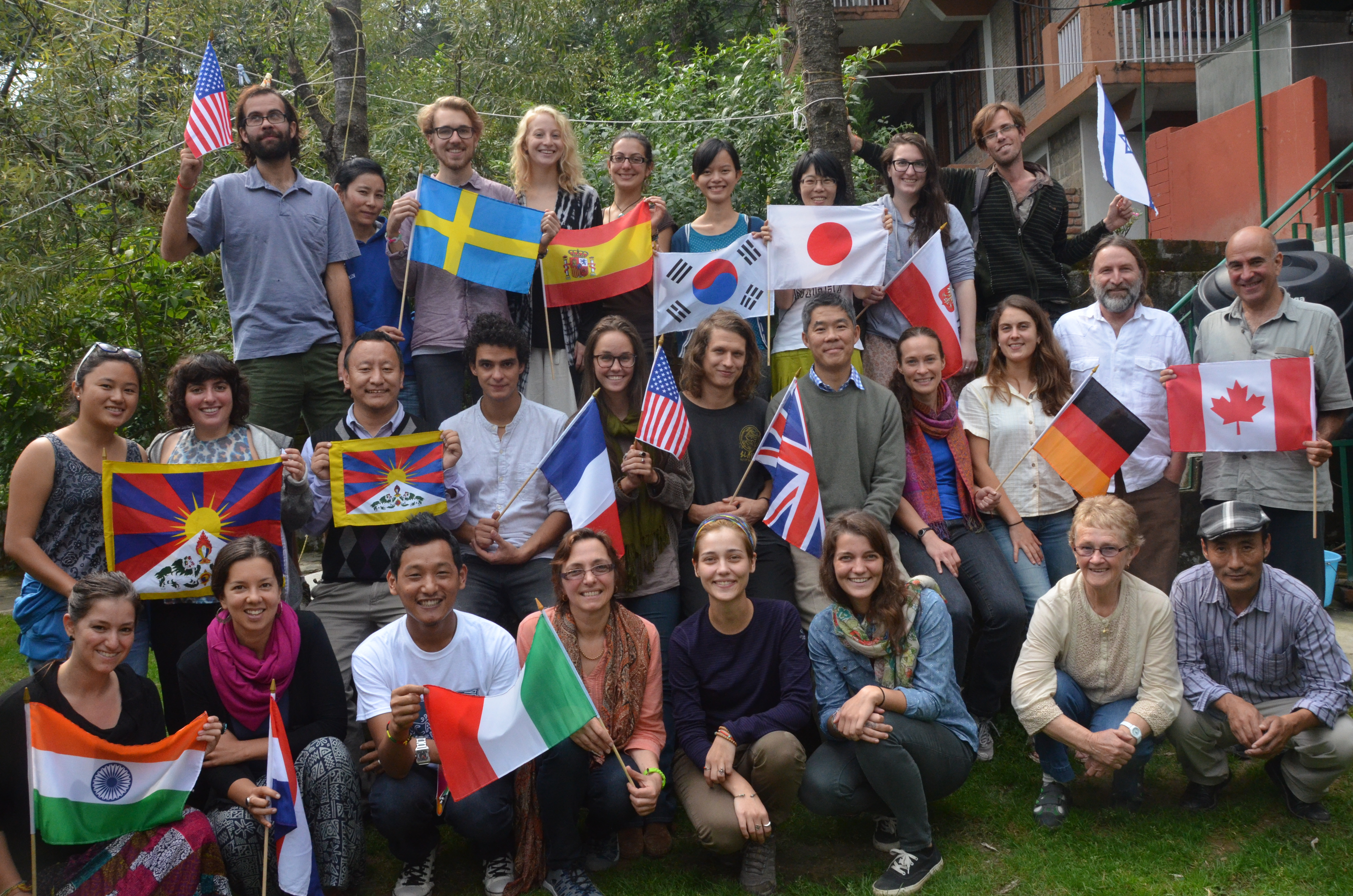 Lha volunteers with their country flags.